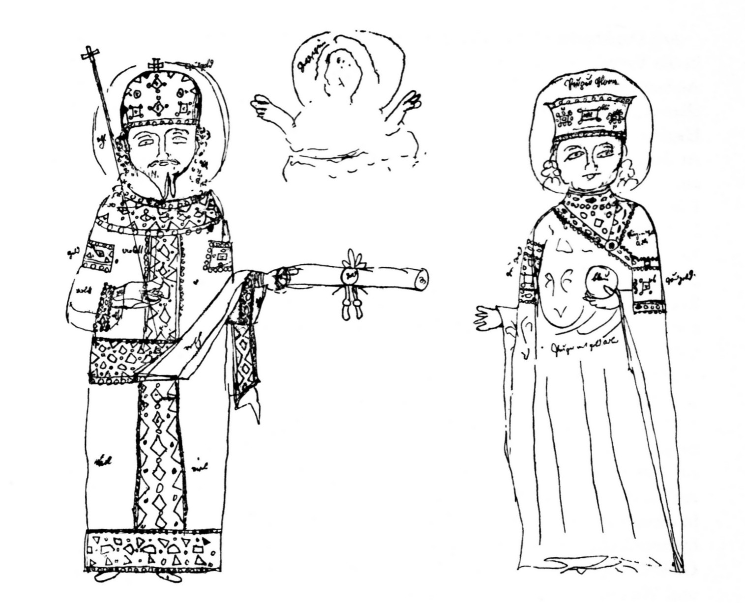 Jakob Philipp Fallmerayer, sketch of Emperor Alexios III of Trebizond and Empress Theodora, after the founding document of the Dionysiou monastery, Mount Athos (For the original, see here). From J. Fallmerayer, H. Reidt, ed., Fragmente aus dem Orient (Munich, 1963), p. 219.